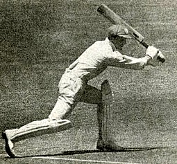 Archie Jackson, Australian cricketer